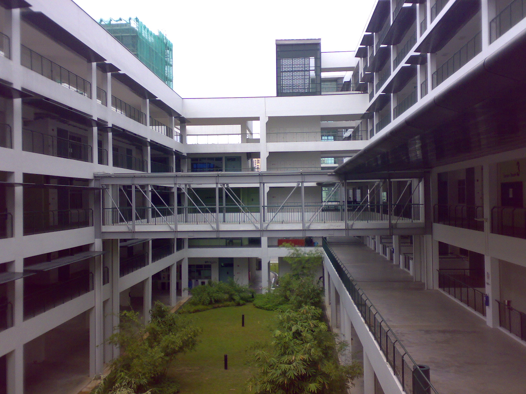 Linking bridge and courtyard between Blocks A and B of Raffles Junior College